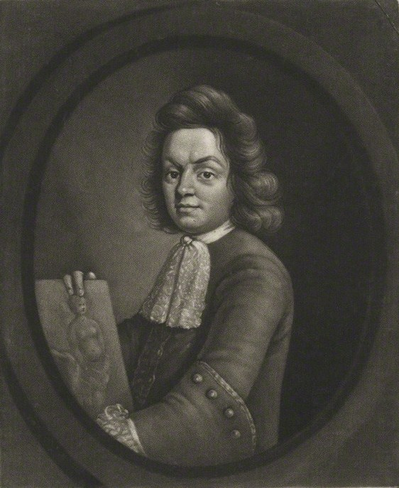 Portrait of John Sturt (1658–1730), English engraver.